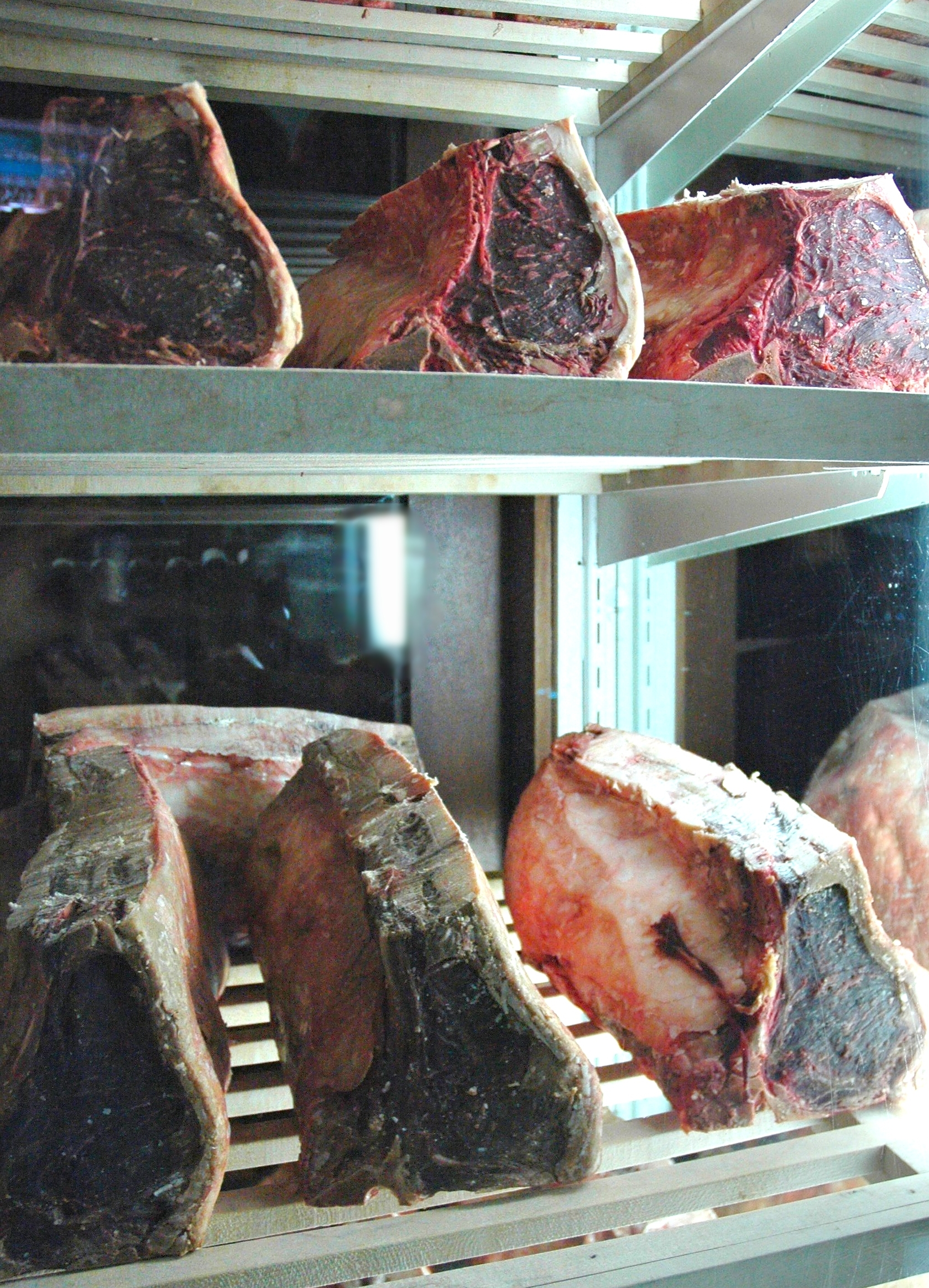 Dry-aged beef (steaks)